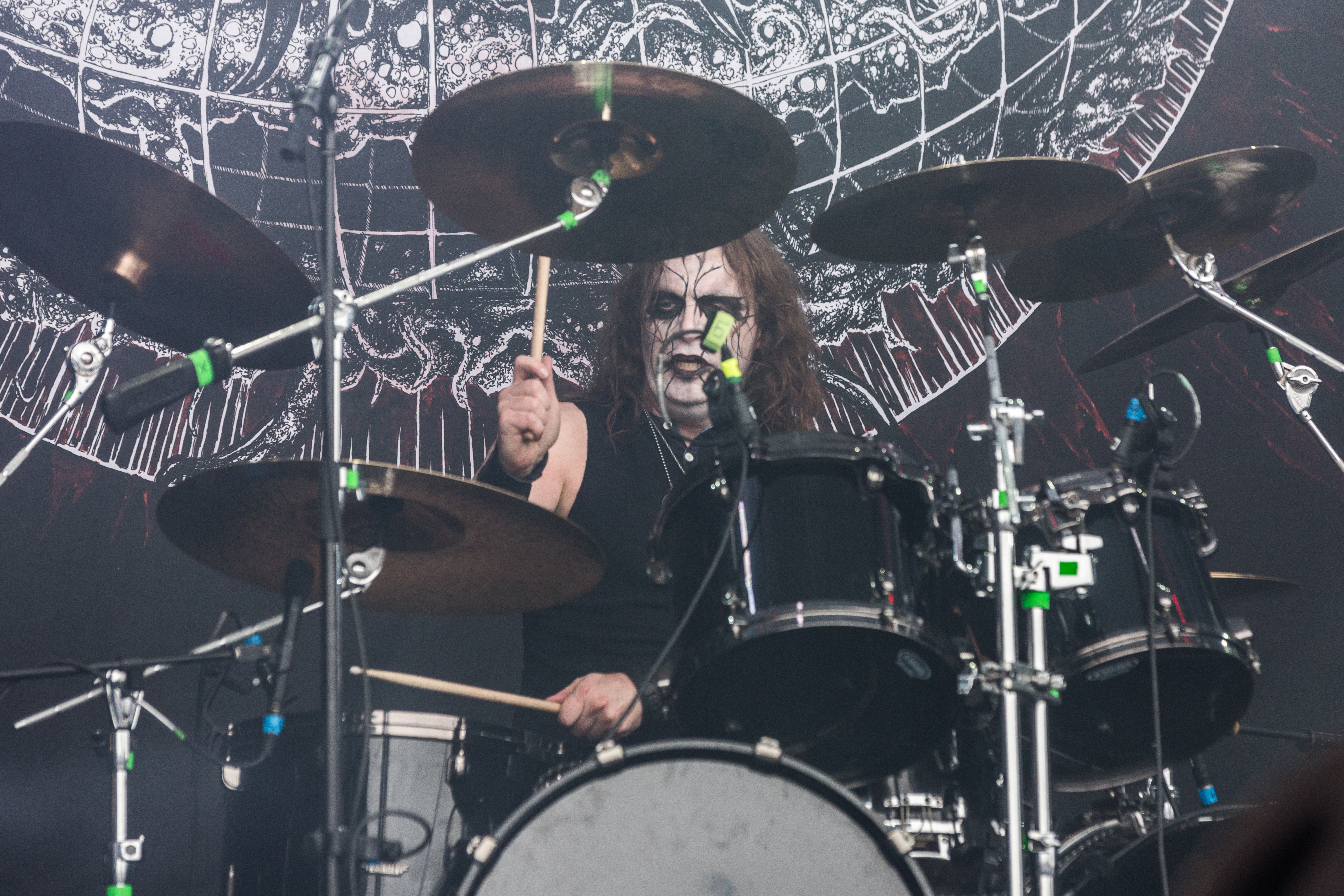 The Colombian black metal band Inquisition at the Party.San Metal Open Air 2017 in Obermehler-Schlotheim/Germany.